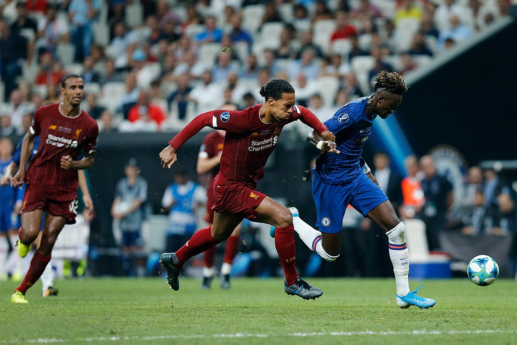 Liverpool vs. Chelsea, 2019 UEFA Super Cup